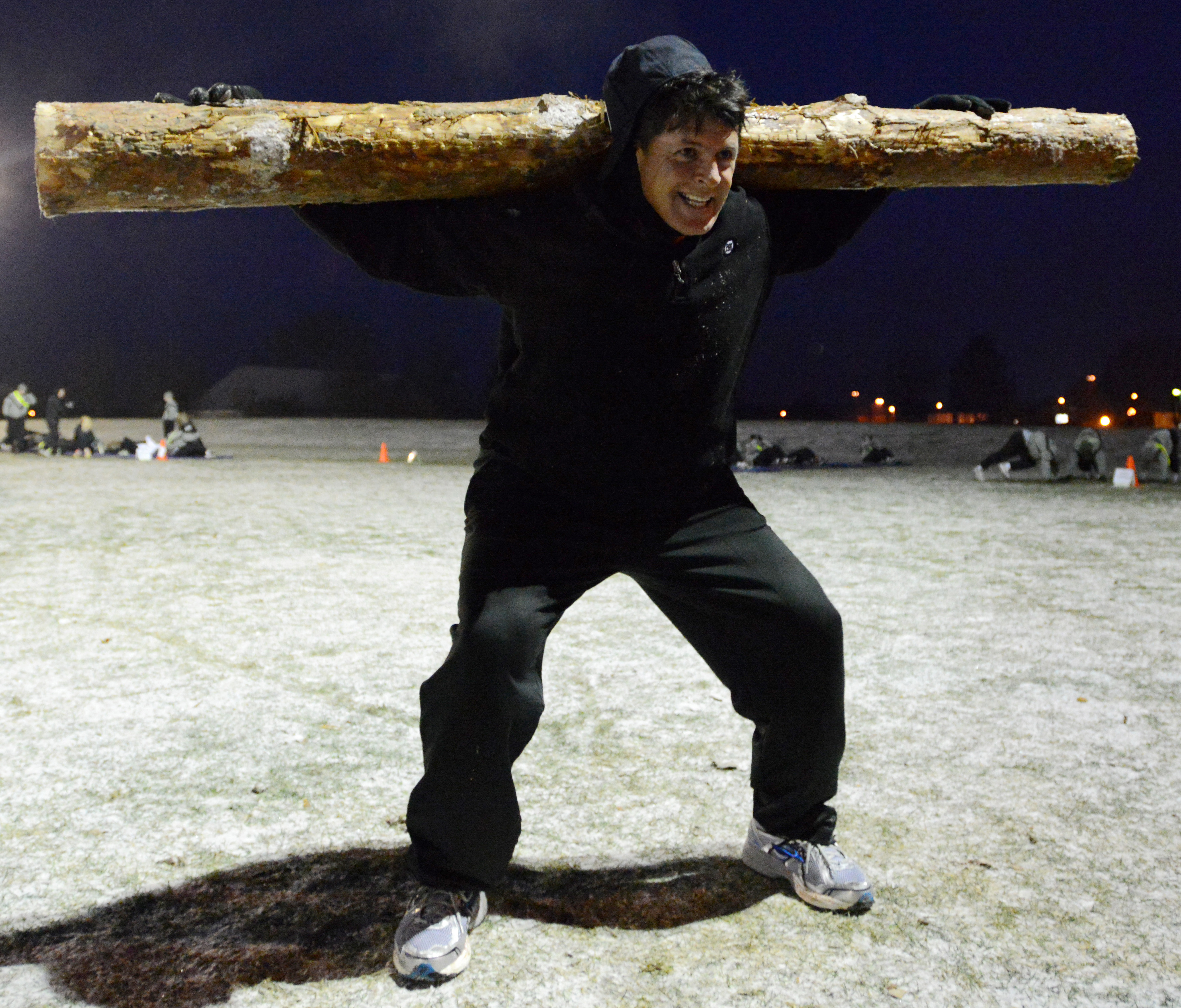 Former Major Leauge Baseball Player and FOX Sports Broadcaster Jose Tolentino, conducts physical fitness training alongside with U.S. Army soldiers from 2nd Cavalry Regiment (2CR) on Rose Barracks , Germany, Feb. 7,2013. FOX Sports and the baseball players are in Grafenwoehr for a three-day visit to motivate, educate and showcase the Army in Europe community. Footage of the players interacting with soldiers and community members will be used on FOX Sports major league baseball broadcasts throughout the 2013 season. (U.S. Army Photo by Visual Information Specialist Gertrud Zach/released)